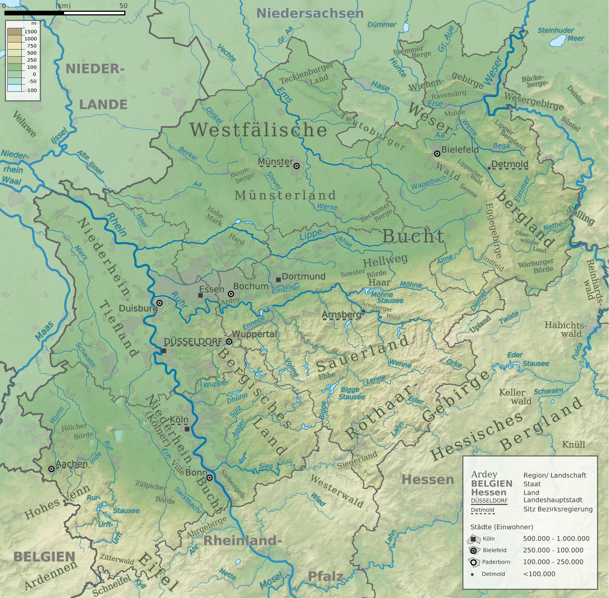 Topographic map of [:w:North Rhine-Westphalia|North Rhine-Westphalia , Germany.